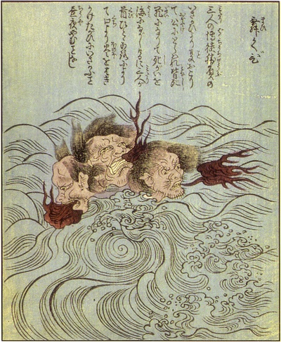 Maikubi (舞首) from the Ehon Hyaku monogatari (絵本百物語)